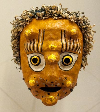 Monk mask, Pongsan, North Hwanghae Province, 1960. Used by the Bongsan talchum troupe led by Pak Duk-up, who defected to South Korea in the 1960s.